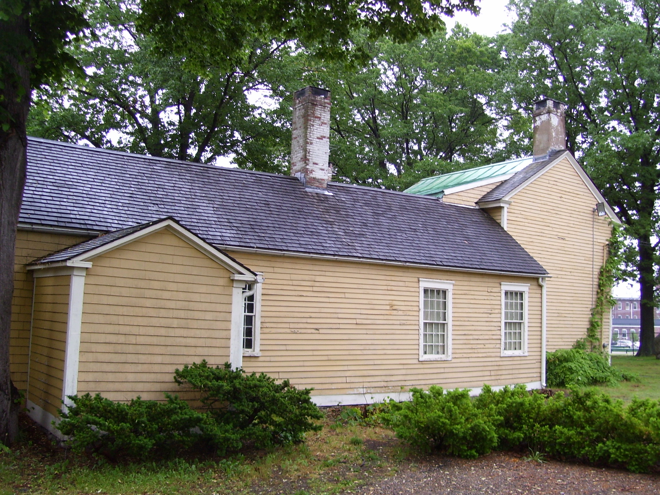 This is my 2008 photo of the Esek Hopkins House in Providence, Rhode Island.